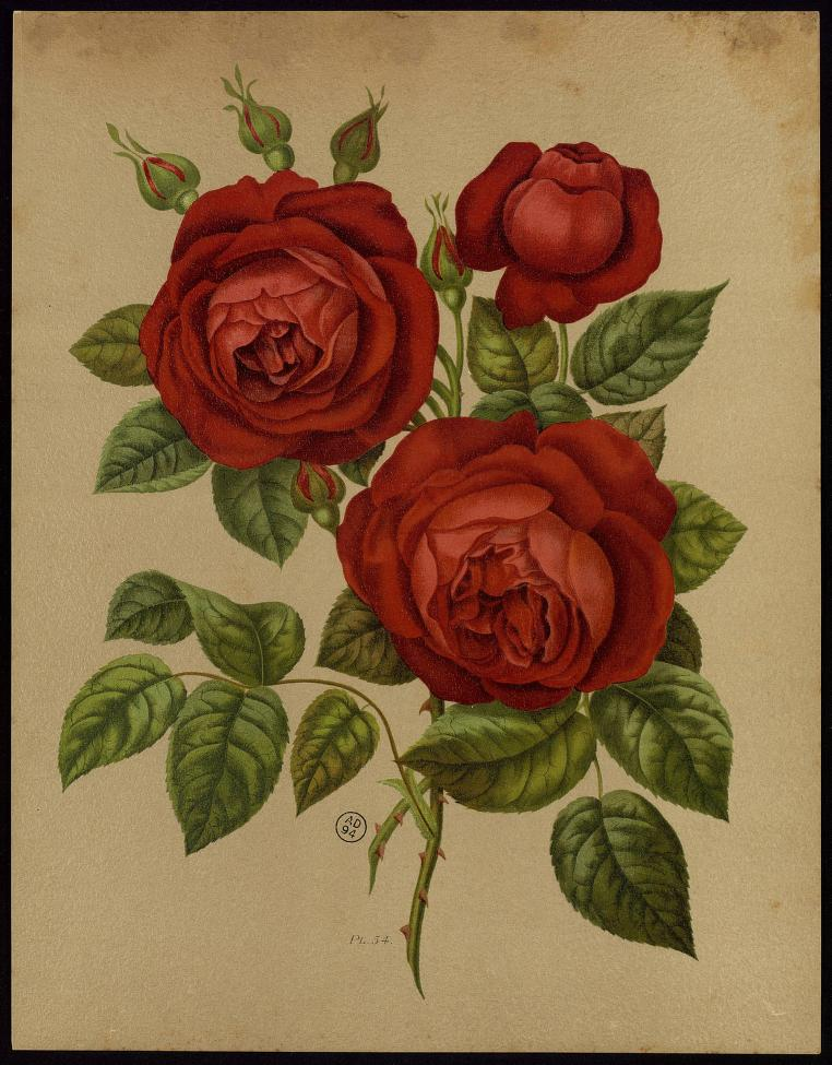 Rose 'Préfet Limbourg', (aussi rose 'Monsieur le Préfet Limbourg') du rosiériste Jules Auguste Margottin fils, 1878 (Livre d'Or des Roses)